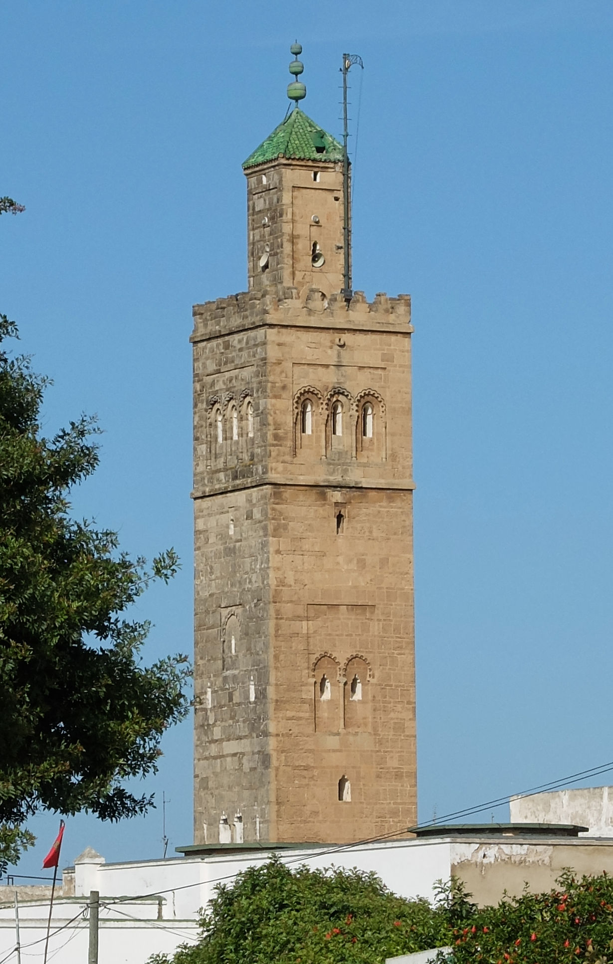 Minaret of Great Mosque, founded in Marinid era, located in the Rabat medina.